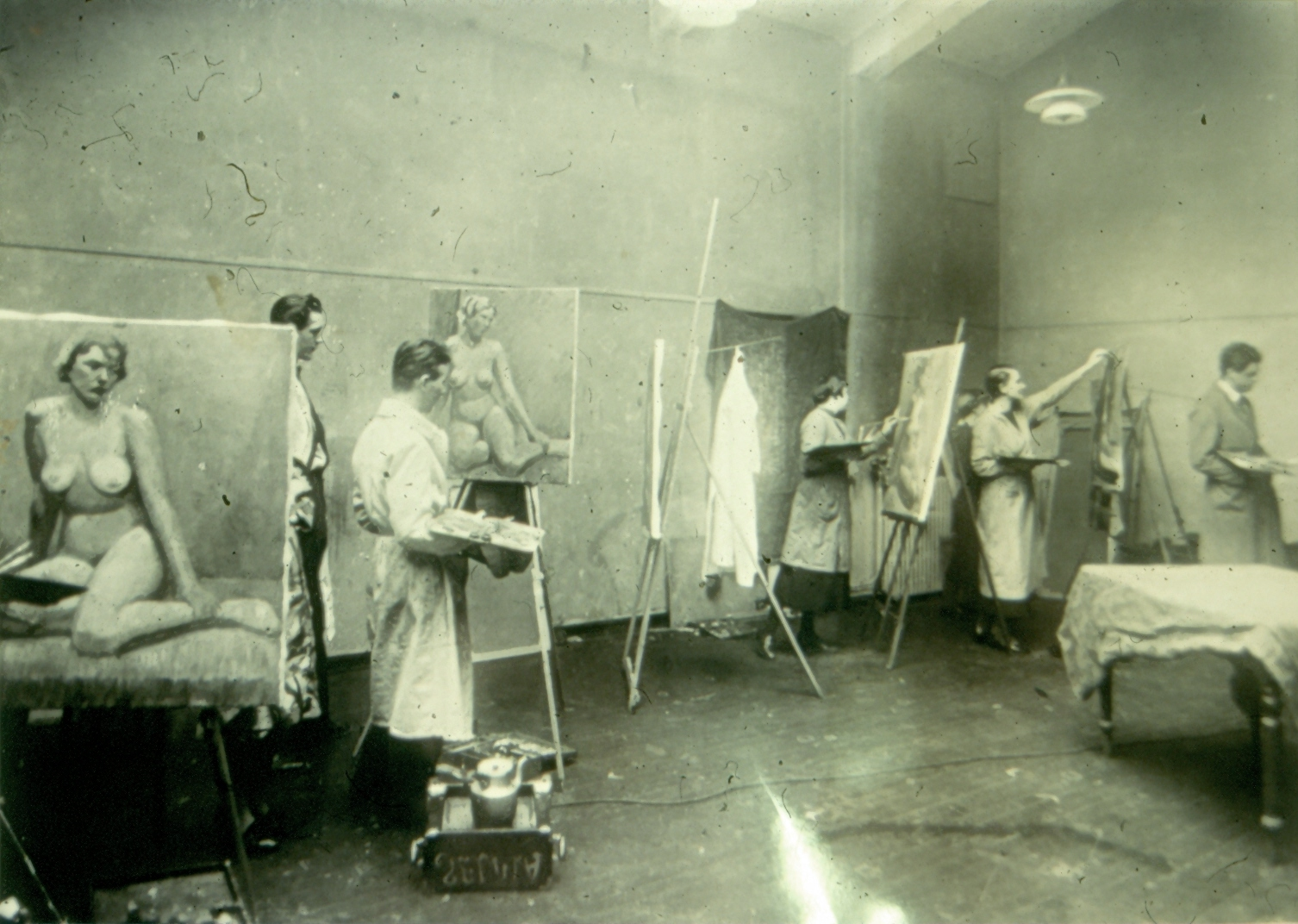 academy.jpg